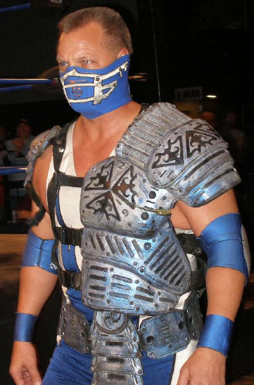 Professional wrestler Glacier in March 2008.